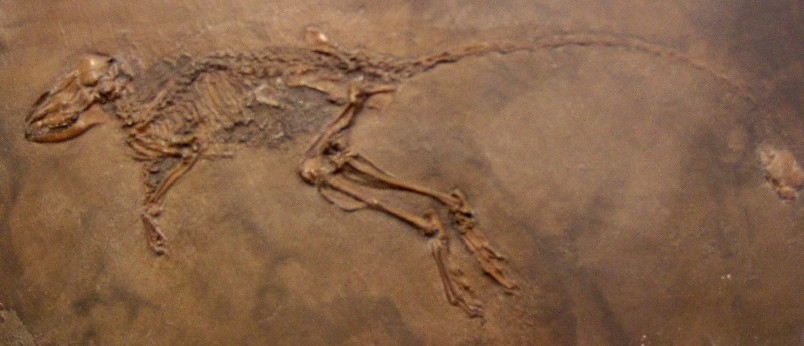 Macrocranion tupaiodon. From the Messel pit fossil site in Germany